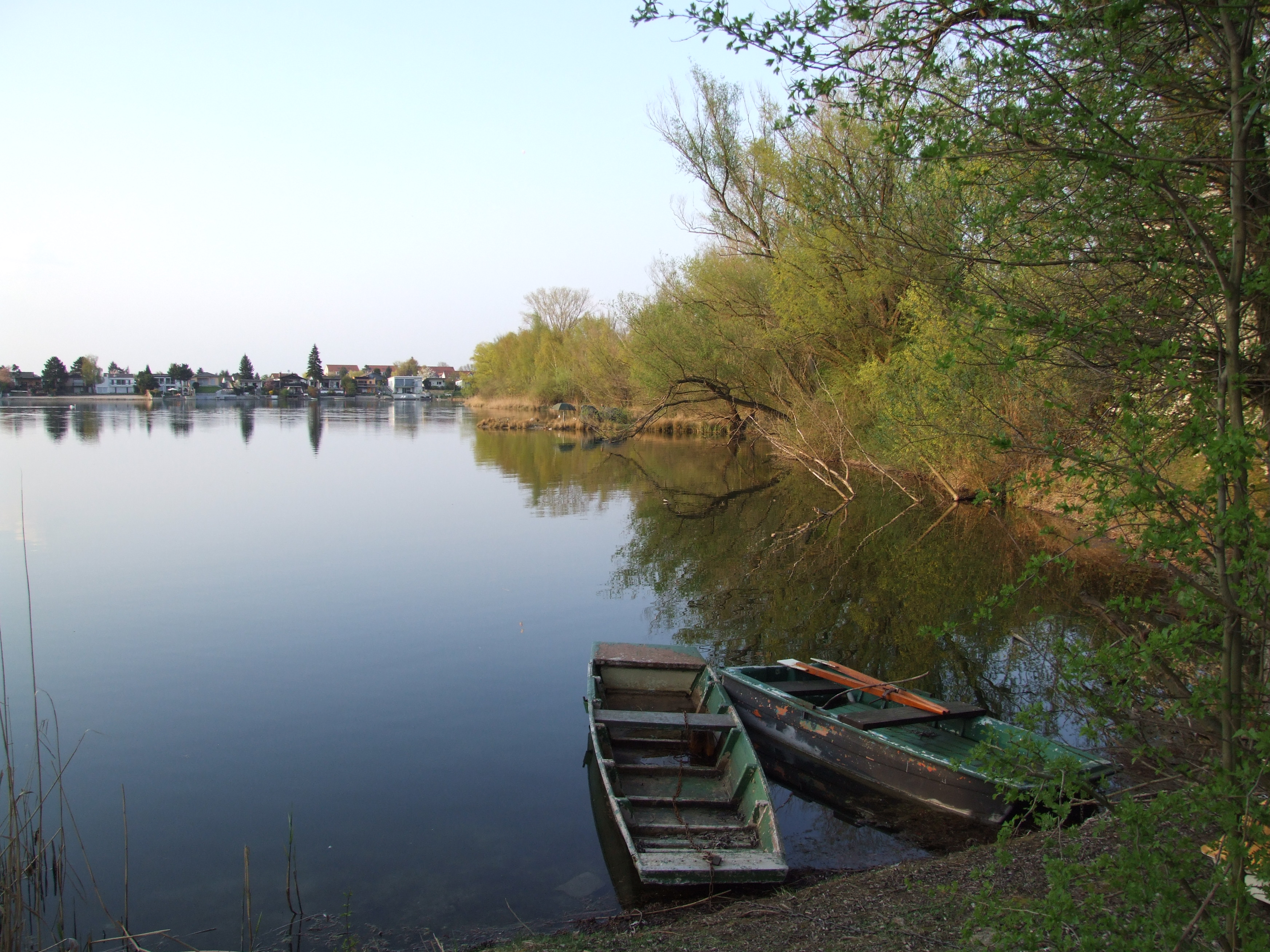 lake Sonnensee, Speyer